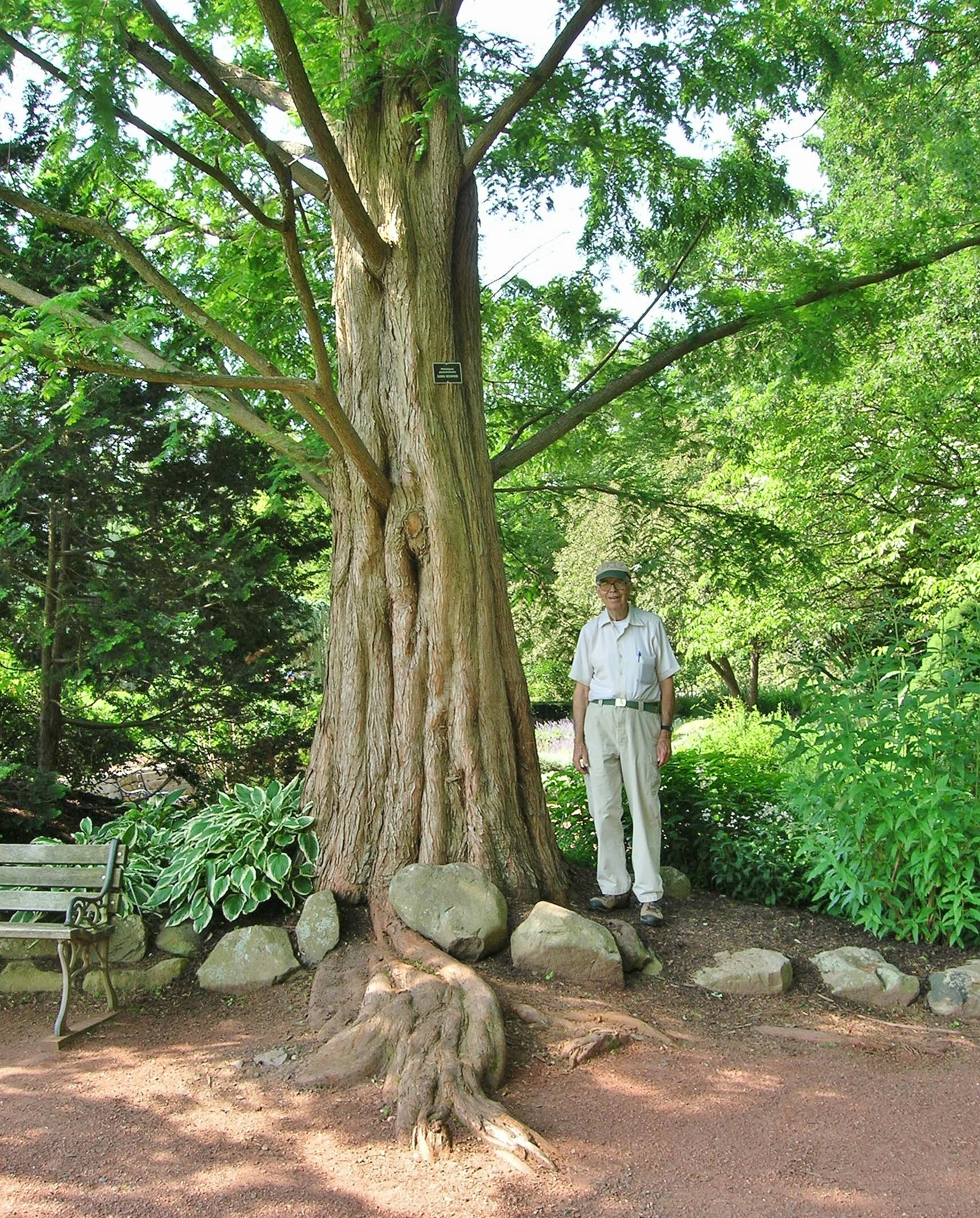 Photograph of Edward A. Richardson with a Dawn Redwood tree in Elizabeth Park, West Hartford, CT.